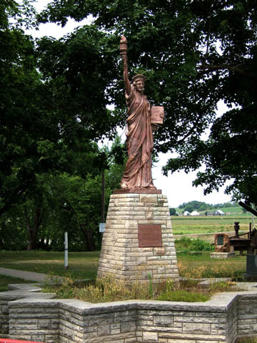 Statue of Liberty Replica, London Mills